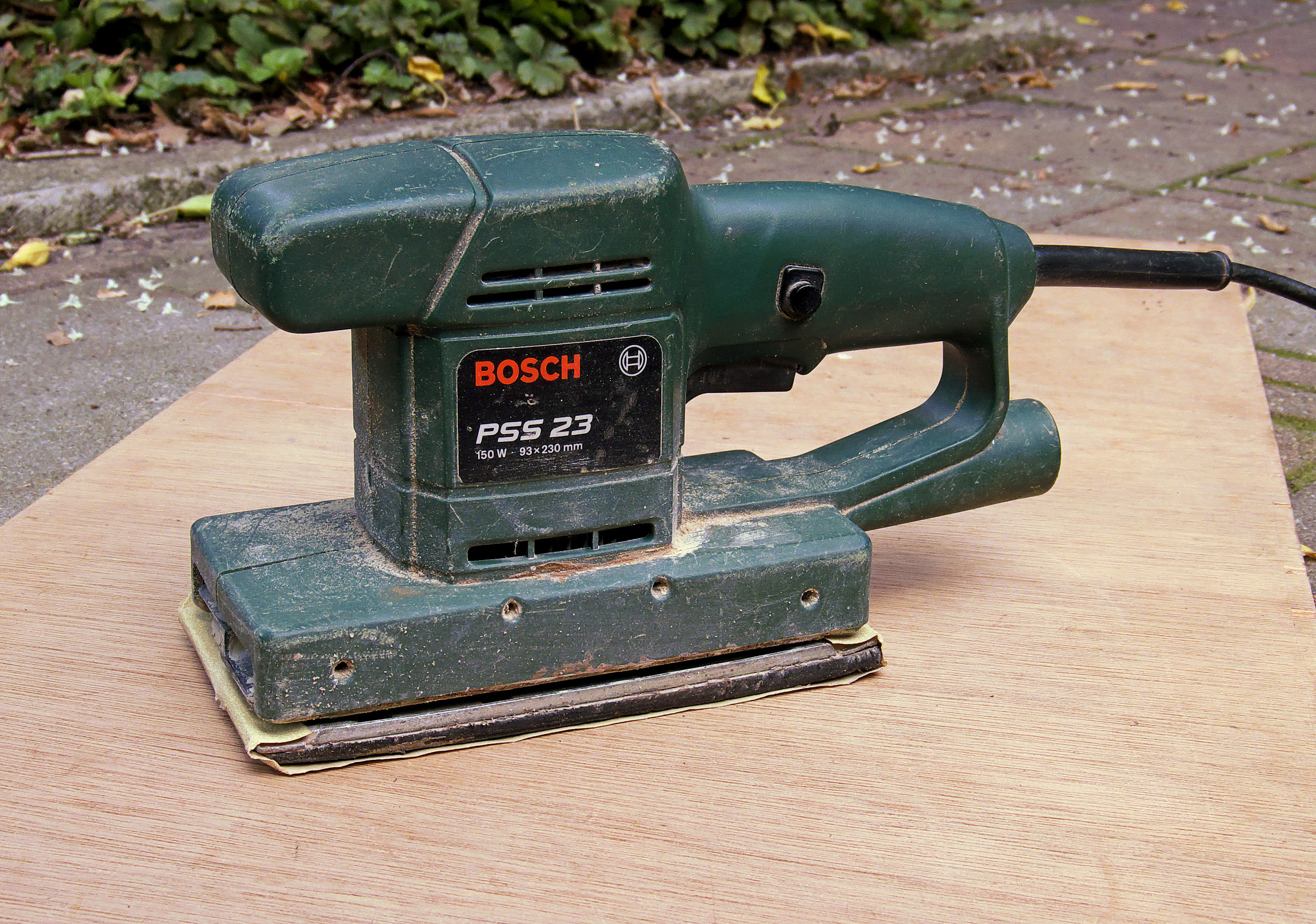 Sander